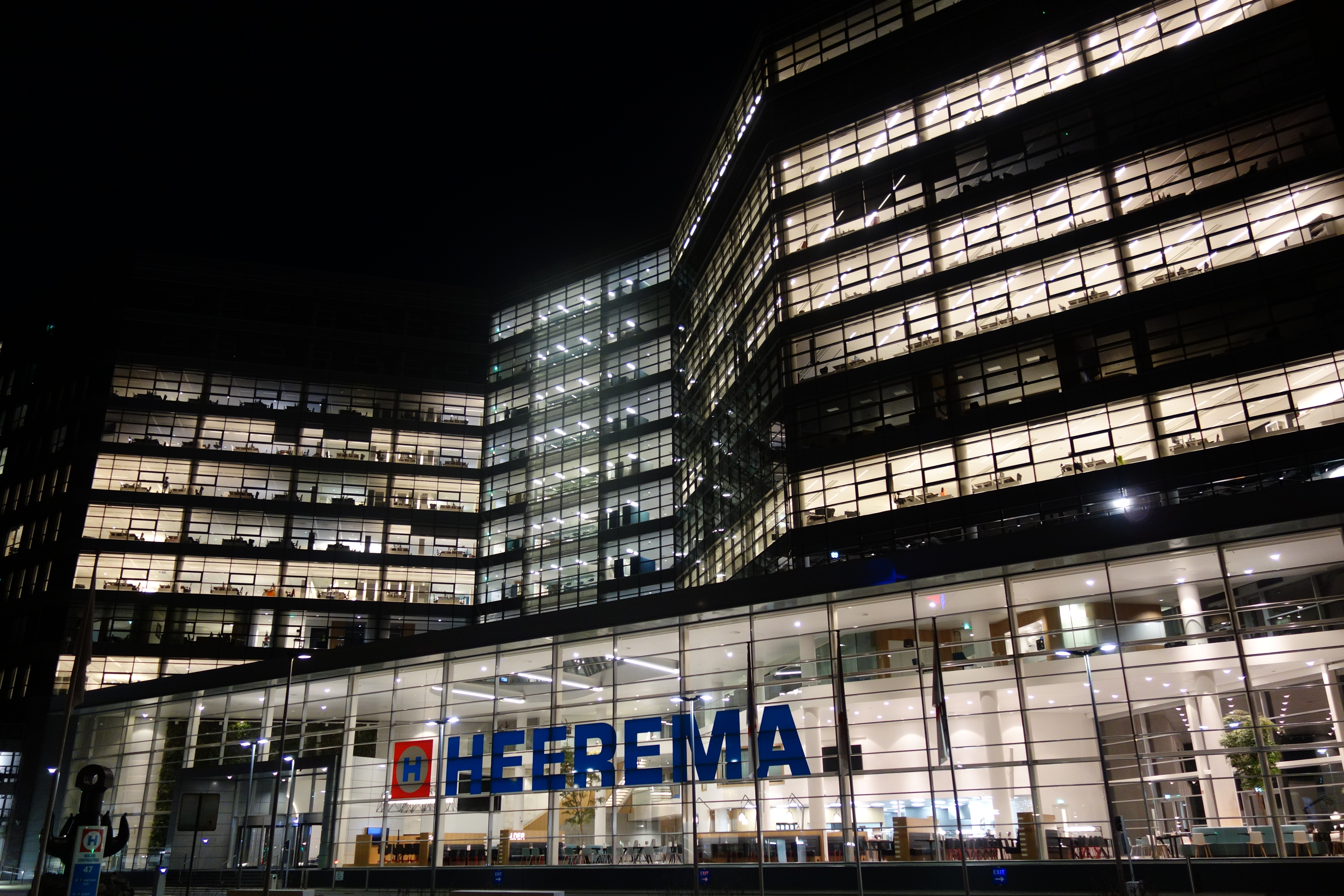 Offices of Heerema Marine Contractors by night